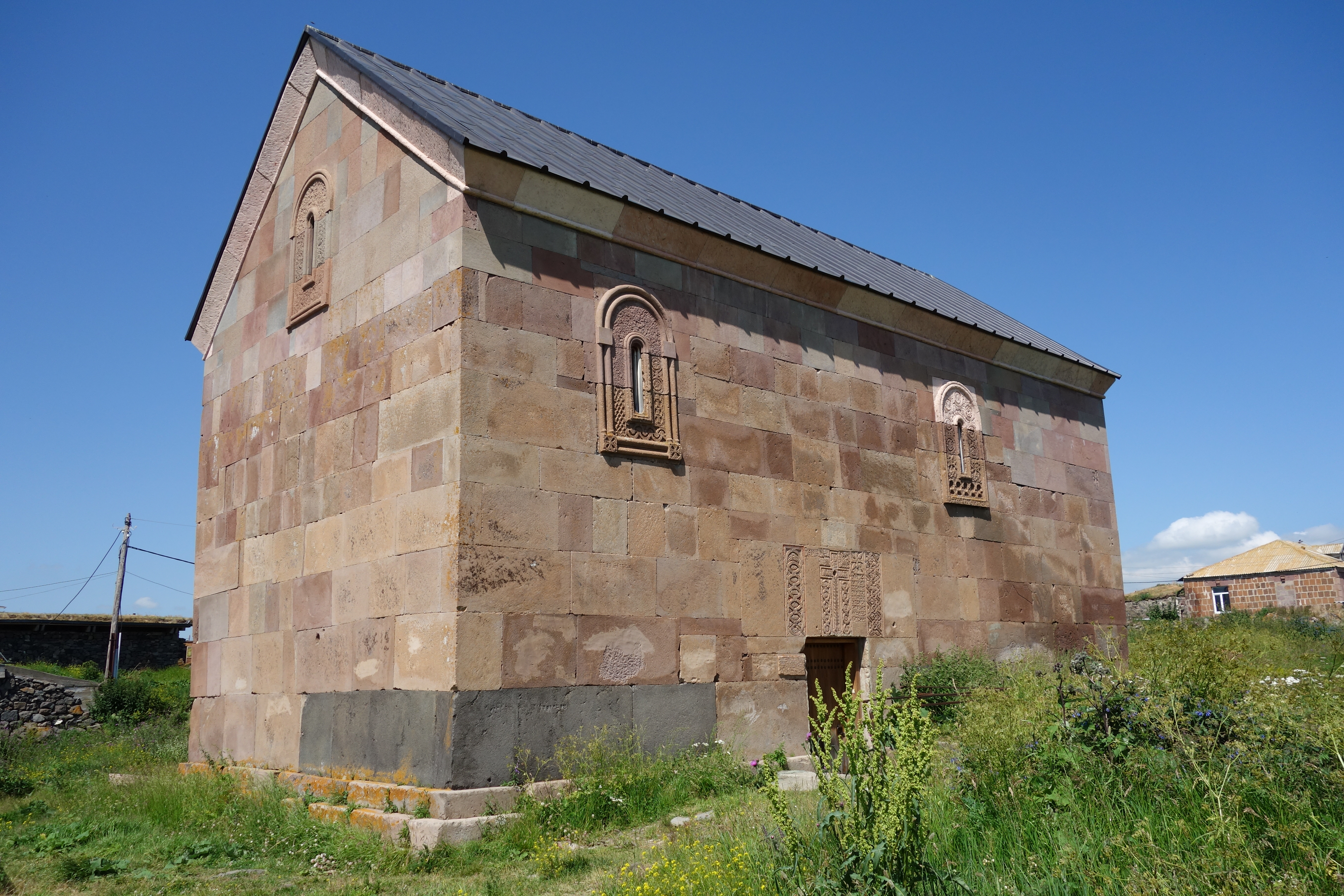 St. Nino Monastery (Nunnery) in Poka, Samtskhe-Javakheti, Georgia